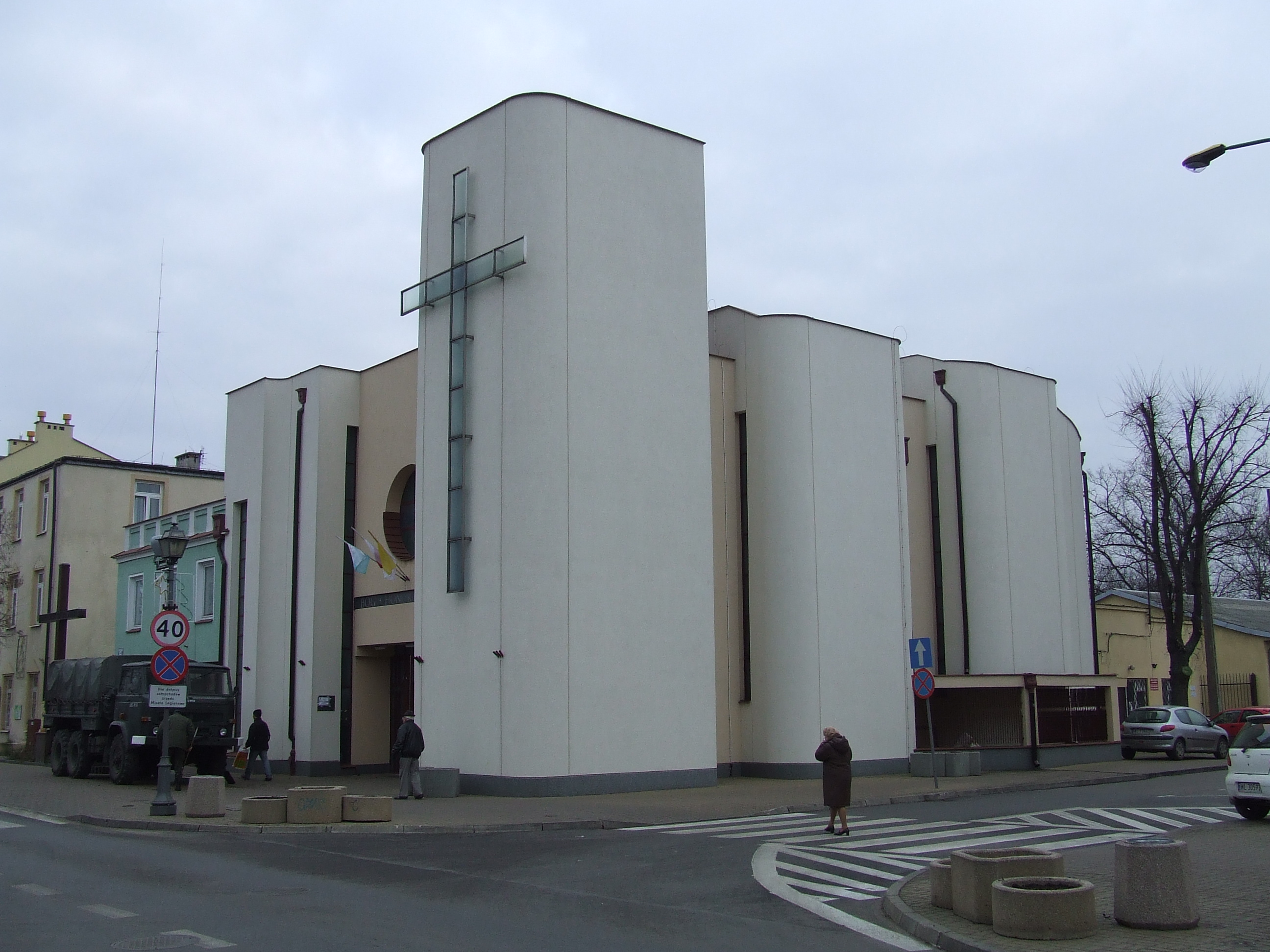 Legionowo, Piłsudskiego street, Church